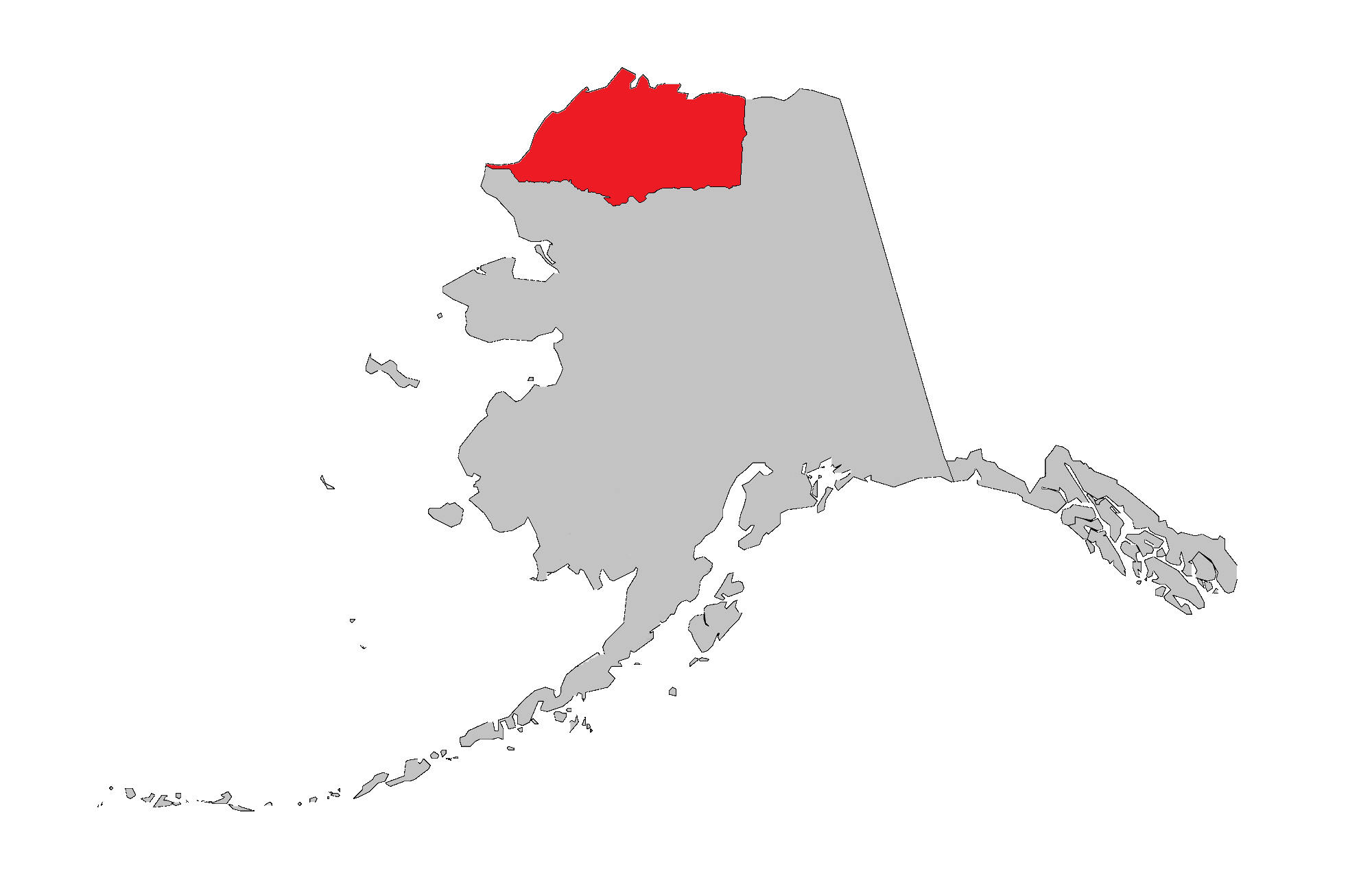 A map of Barrow Census Division, a former Alaska statistical unit (1958-1972)